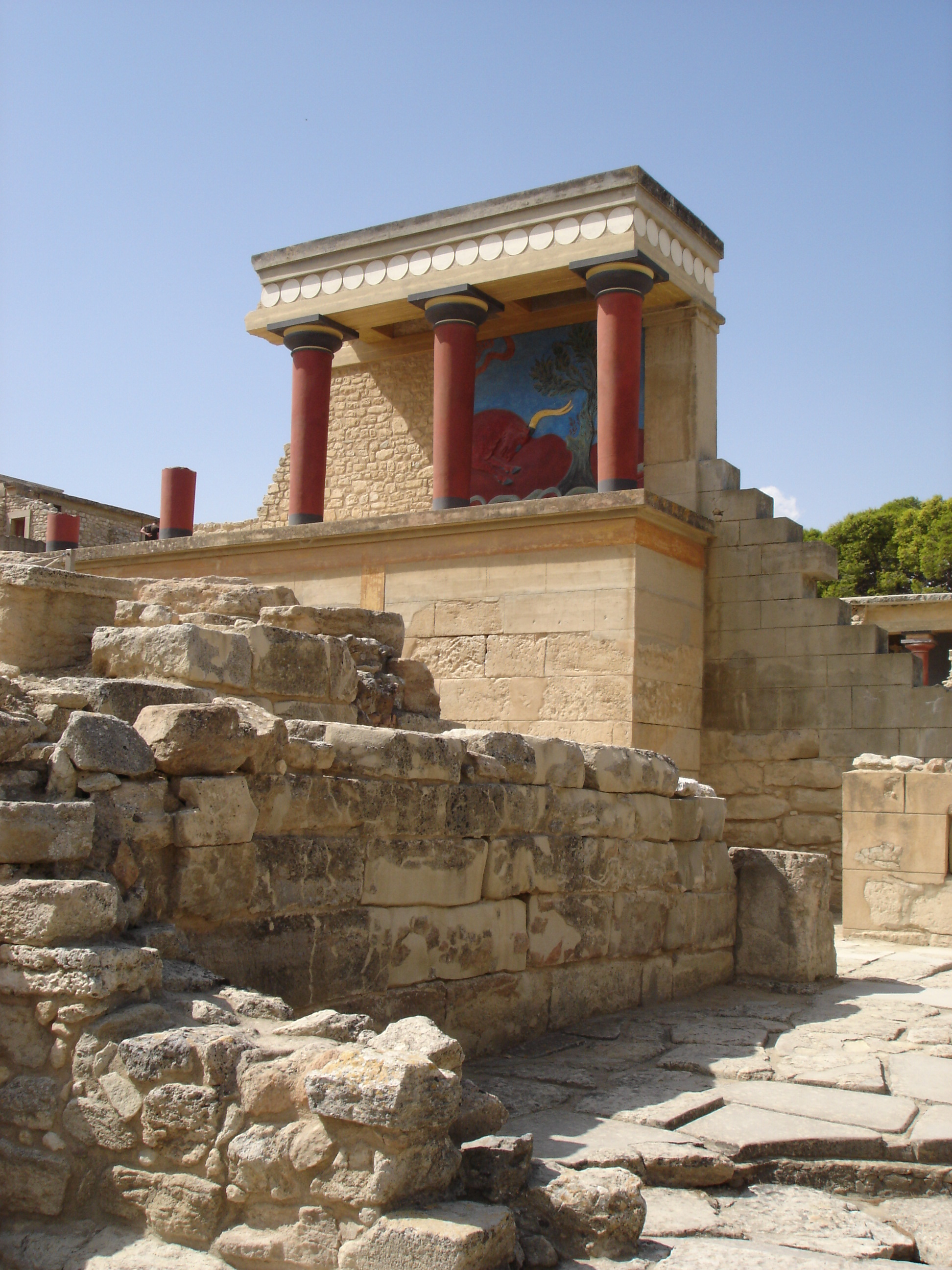 Arthur Evans reconstruction of bastion A by the northern entrance